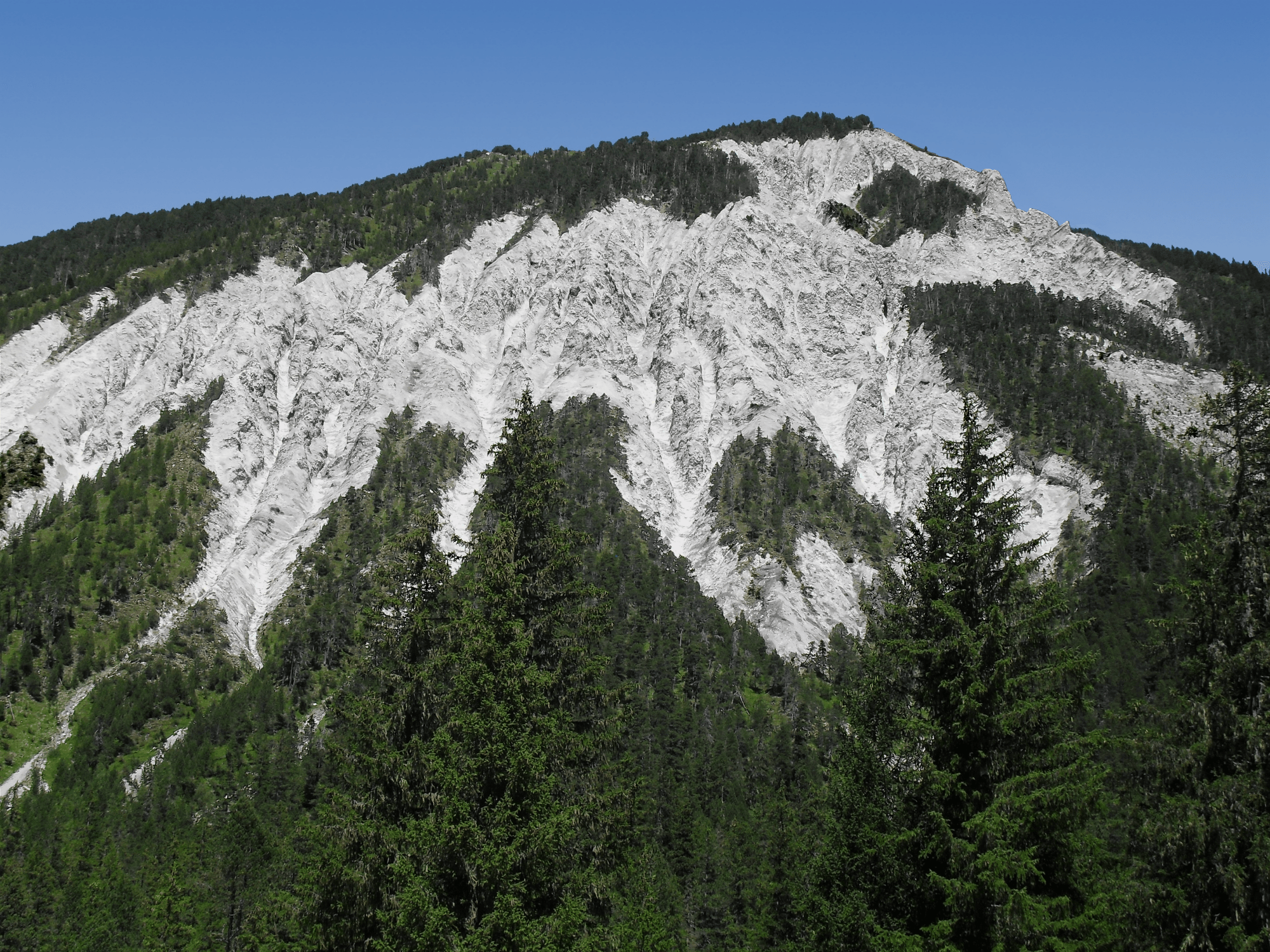 The Dent du Villard, seen from the valley of the Torrent de la Rosière.